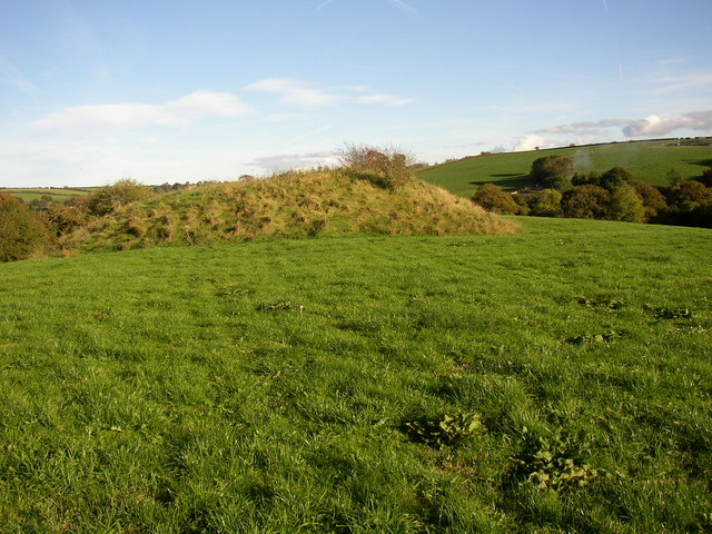 Motte, Llanboidy This castle mound is in a field near to the 'Maesgwynne Arms'.